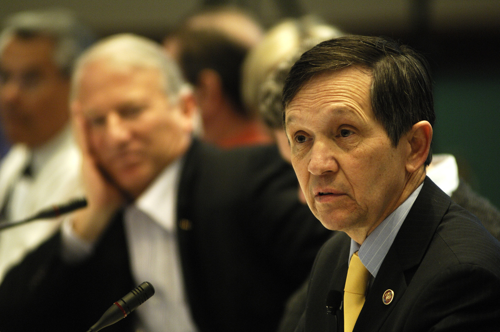 Dennis Kucinich speaking at an SEIU event.